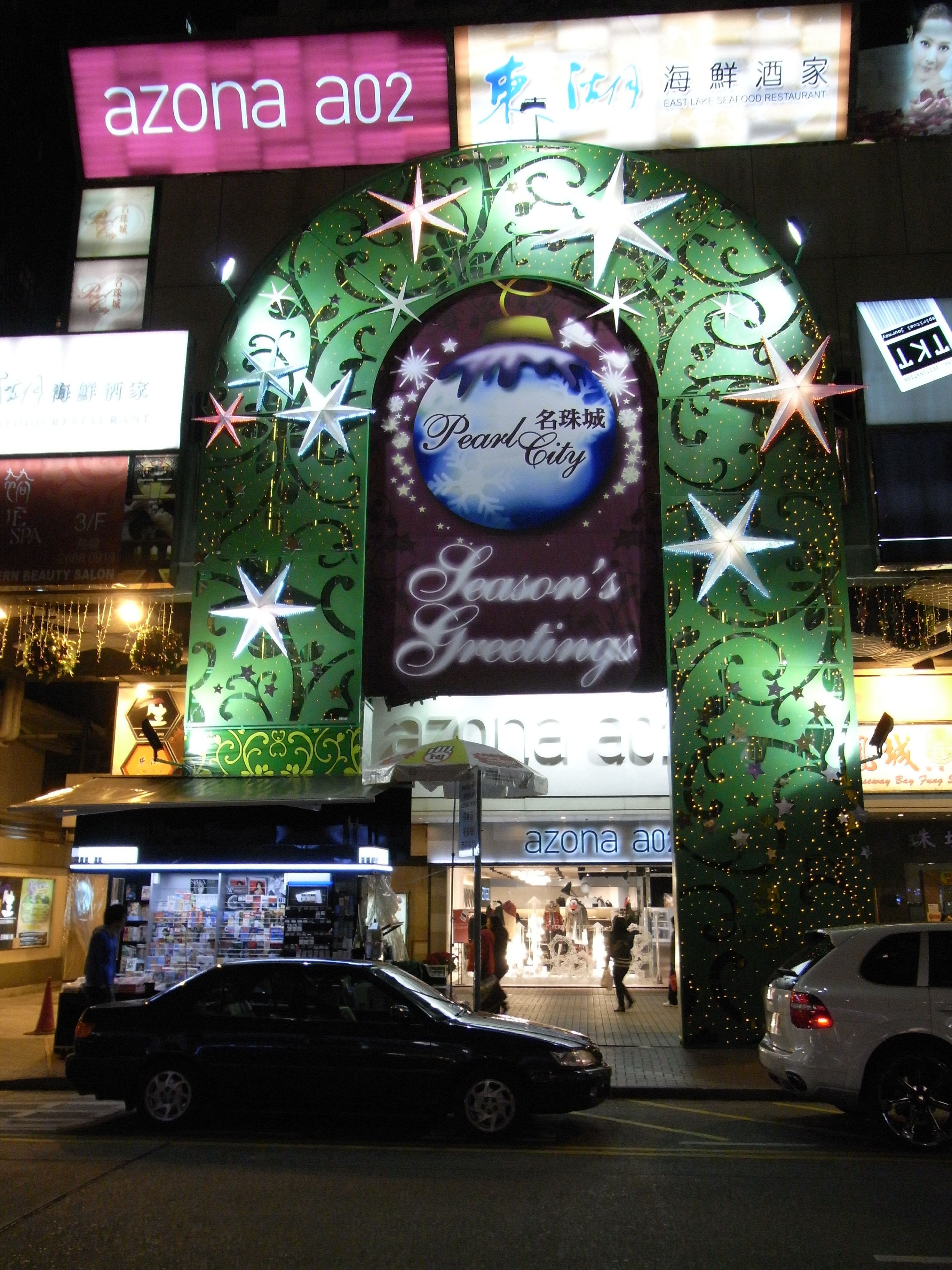 銅鑼灣珠城大廈